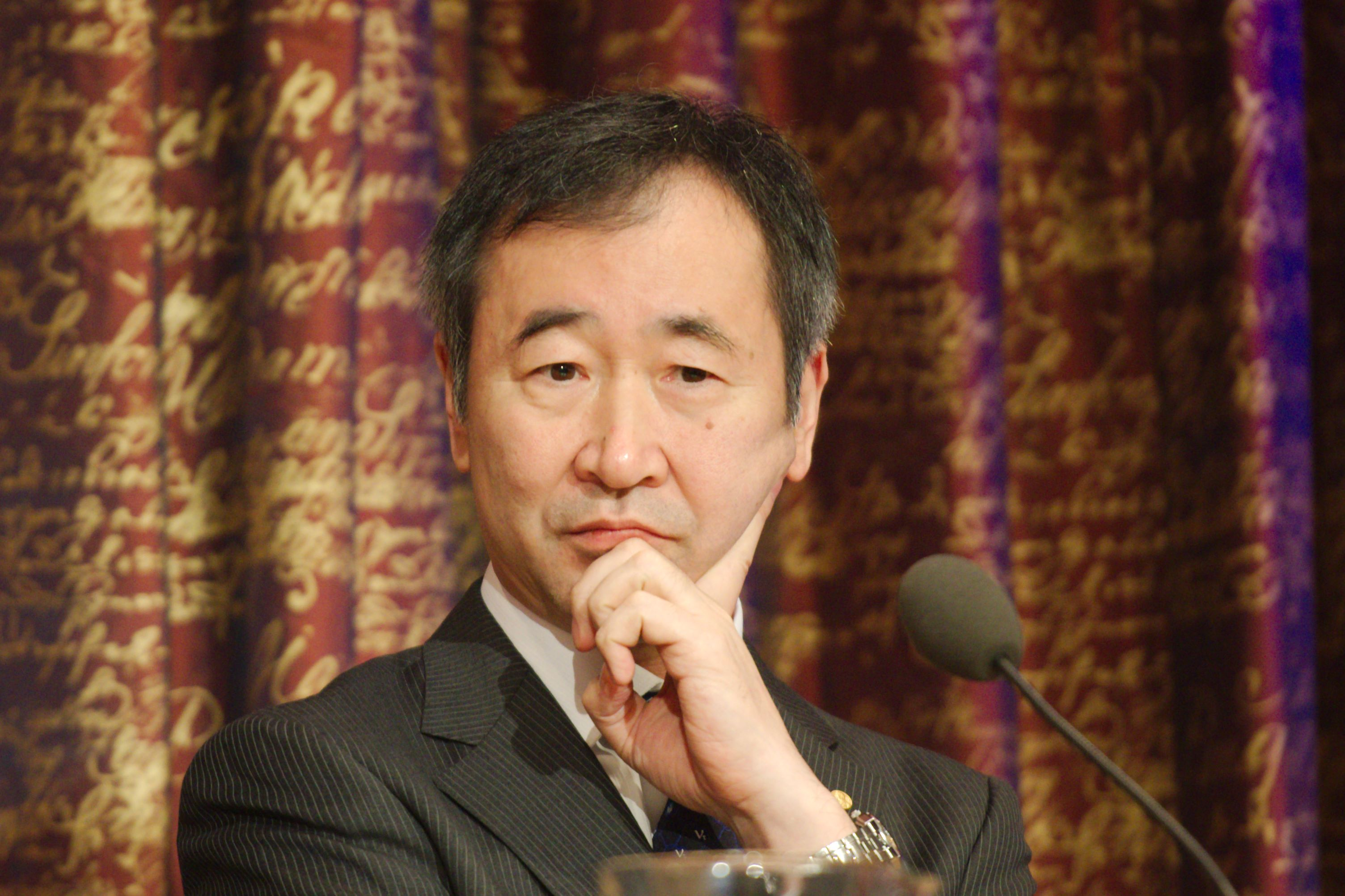 Takaaki Kajita at a press conference at the Royal Swedish Academy of Sciences